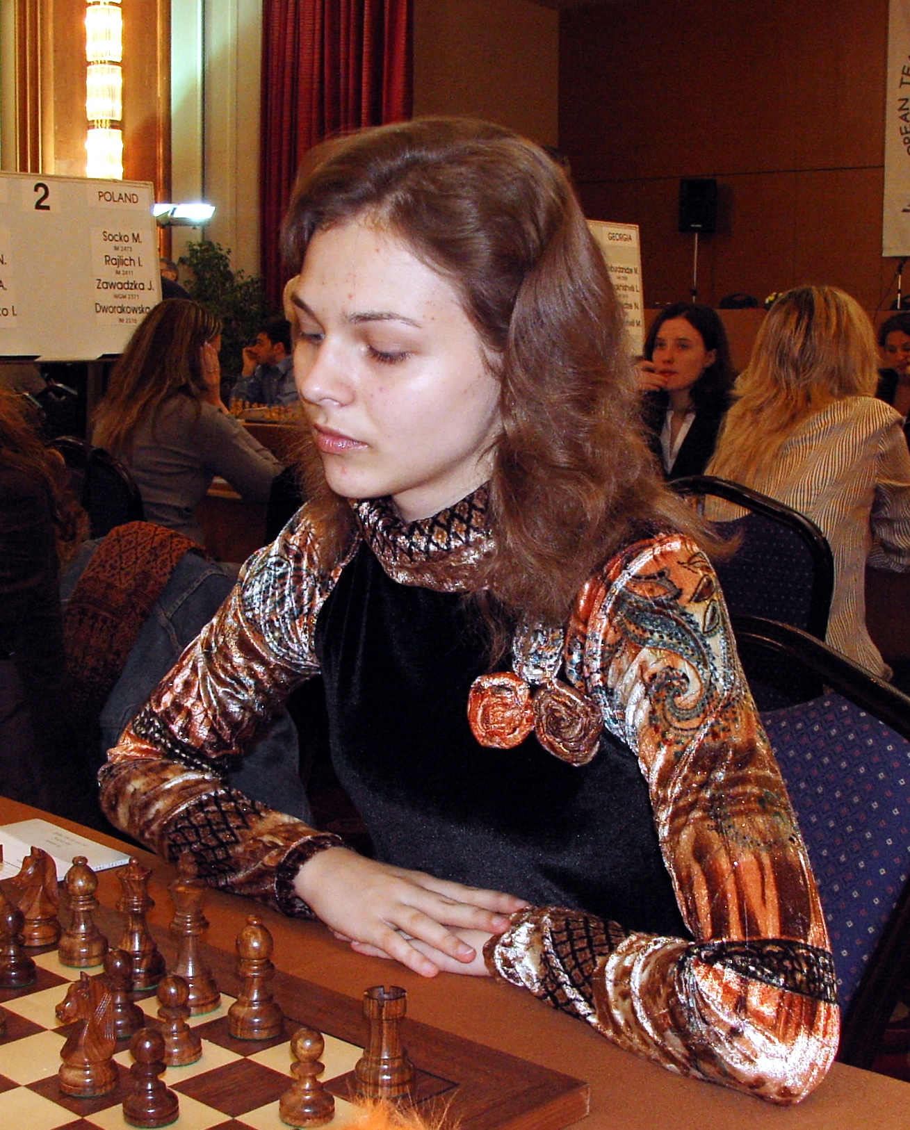 WGM Anna Muzychuk Slovenia, EuroChess Irakion 2007